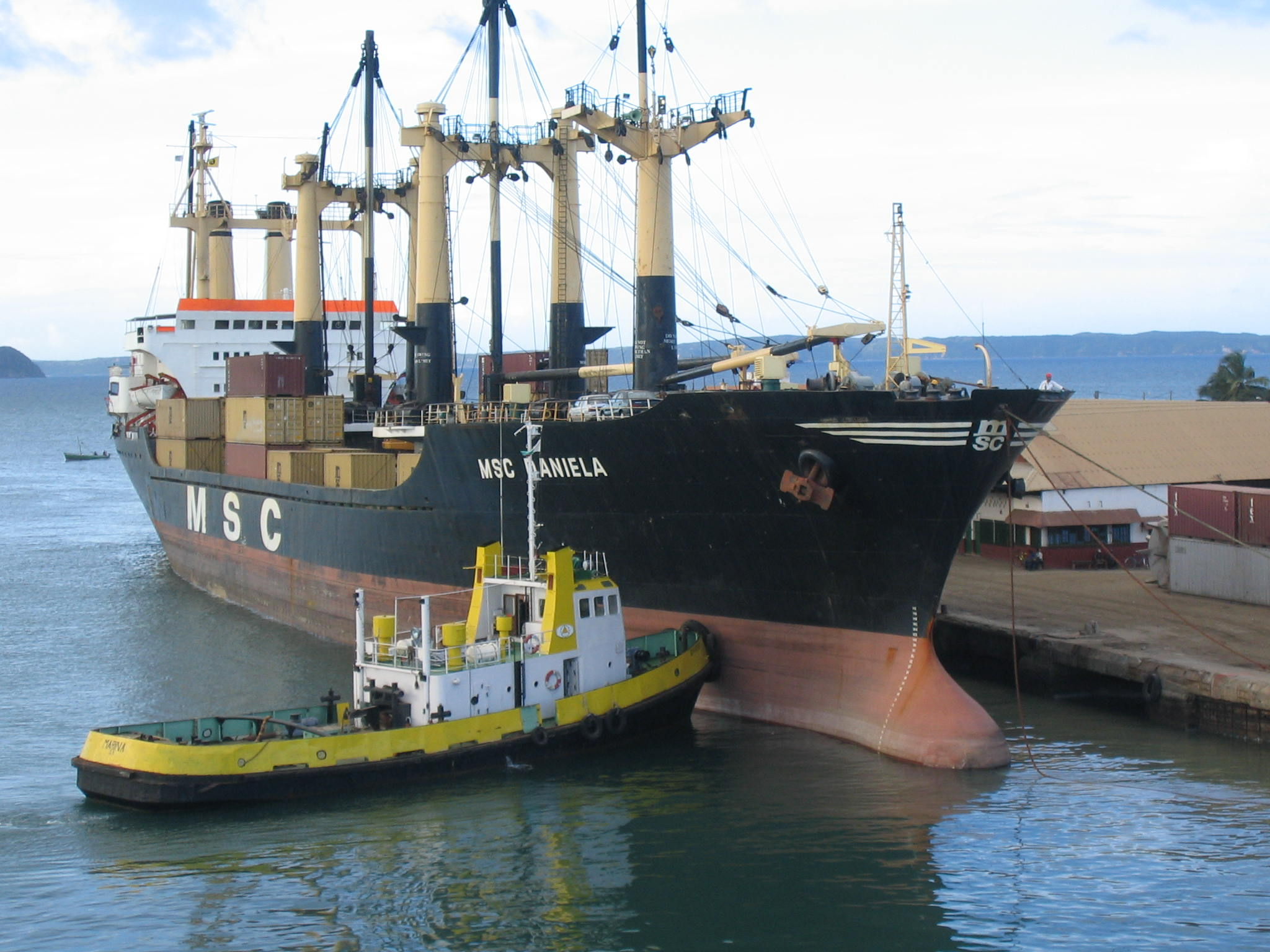 Former container ship MSC Daniela at Antsiranana IMO number : 7116925 Name of ship : MSC DANIELA Call Sign : H9BU Gross tonnage : 11506 Type of ship : General Cargo Ship Year of build : 1972